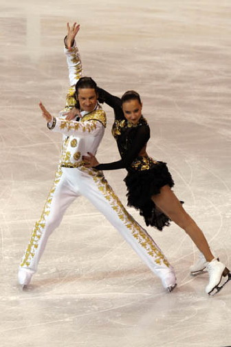 Oksana DOMNINA and Maxim SHABALIN (Rus) at the 2009 World Figure Skating Championships. Compulsory dance - Paso Doble